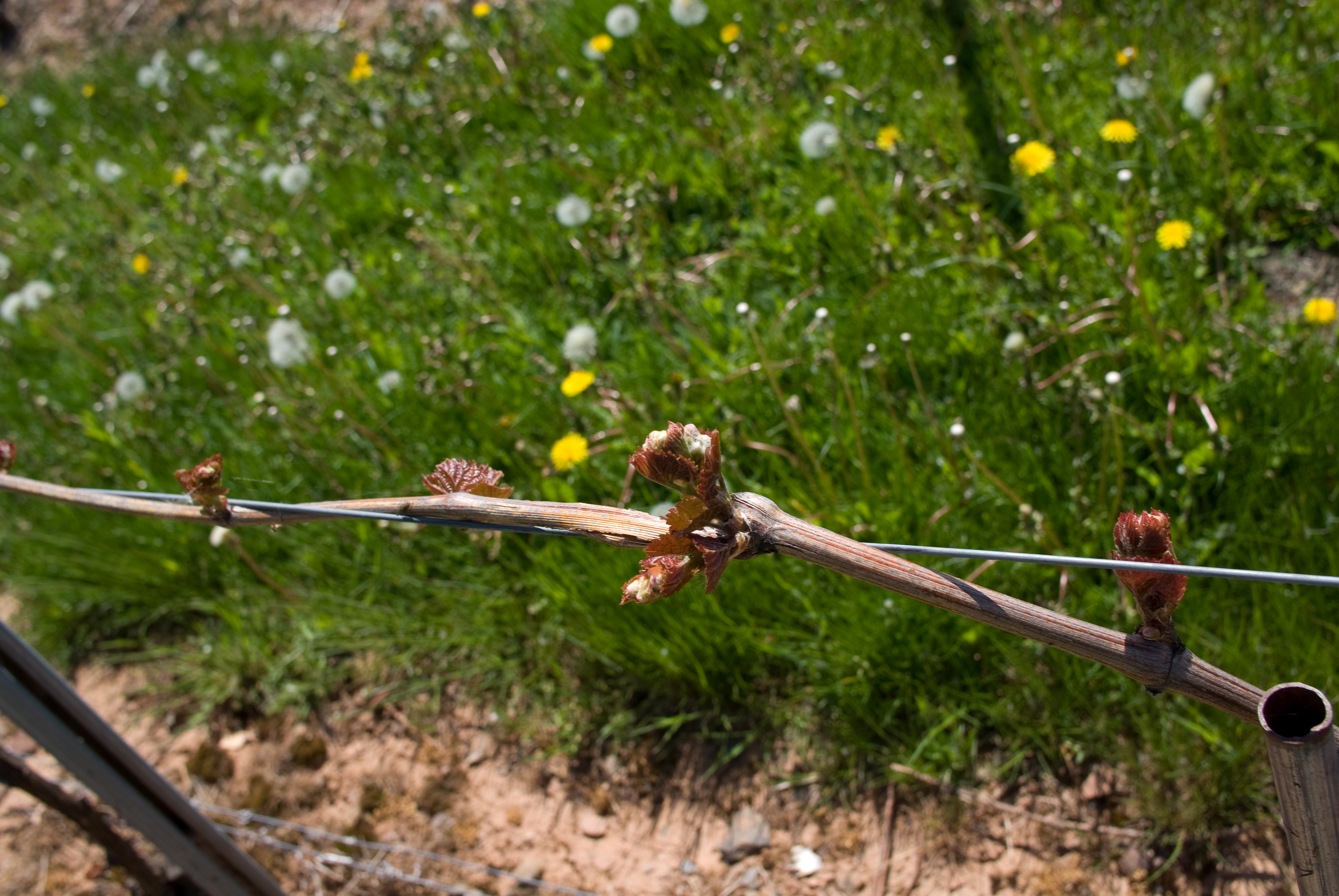 From Domaine de Grand-Pré in the Canadian wine region of Nova Scotia